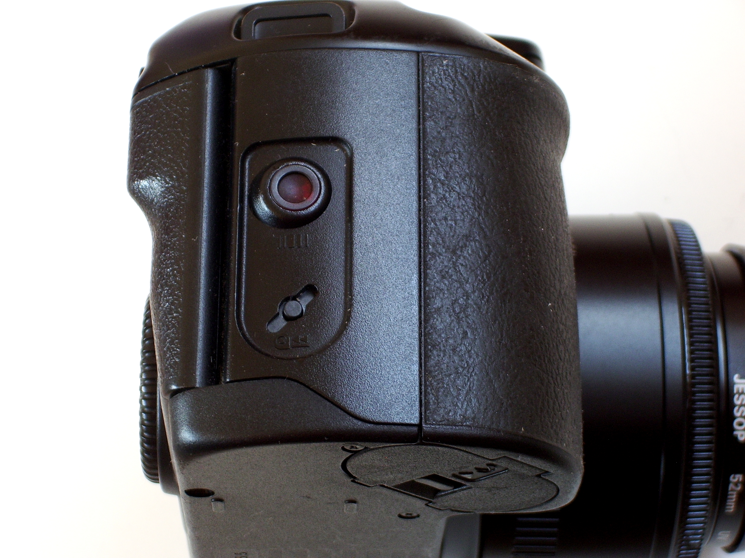 Canon EOS 100 bottom right, showing Bar-code Receptor, Film Rewind Button and Battery Cover Latch.